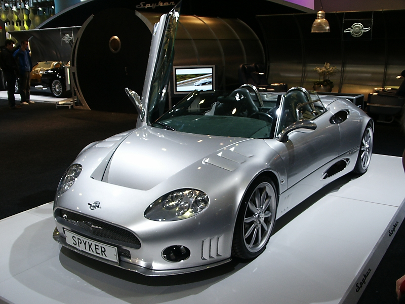 Spyker C8 at the Amsterdam car show. Photo taken by BabyNuke, early 2005.